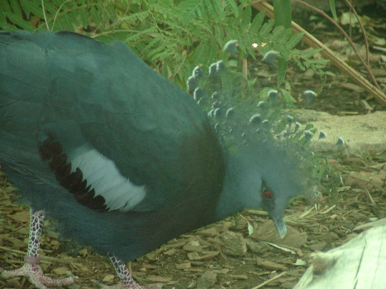 A Victoria Crowned Pigeon (Goura victoria) in the Australian section of the Jerusalem Biblical Zoo.